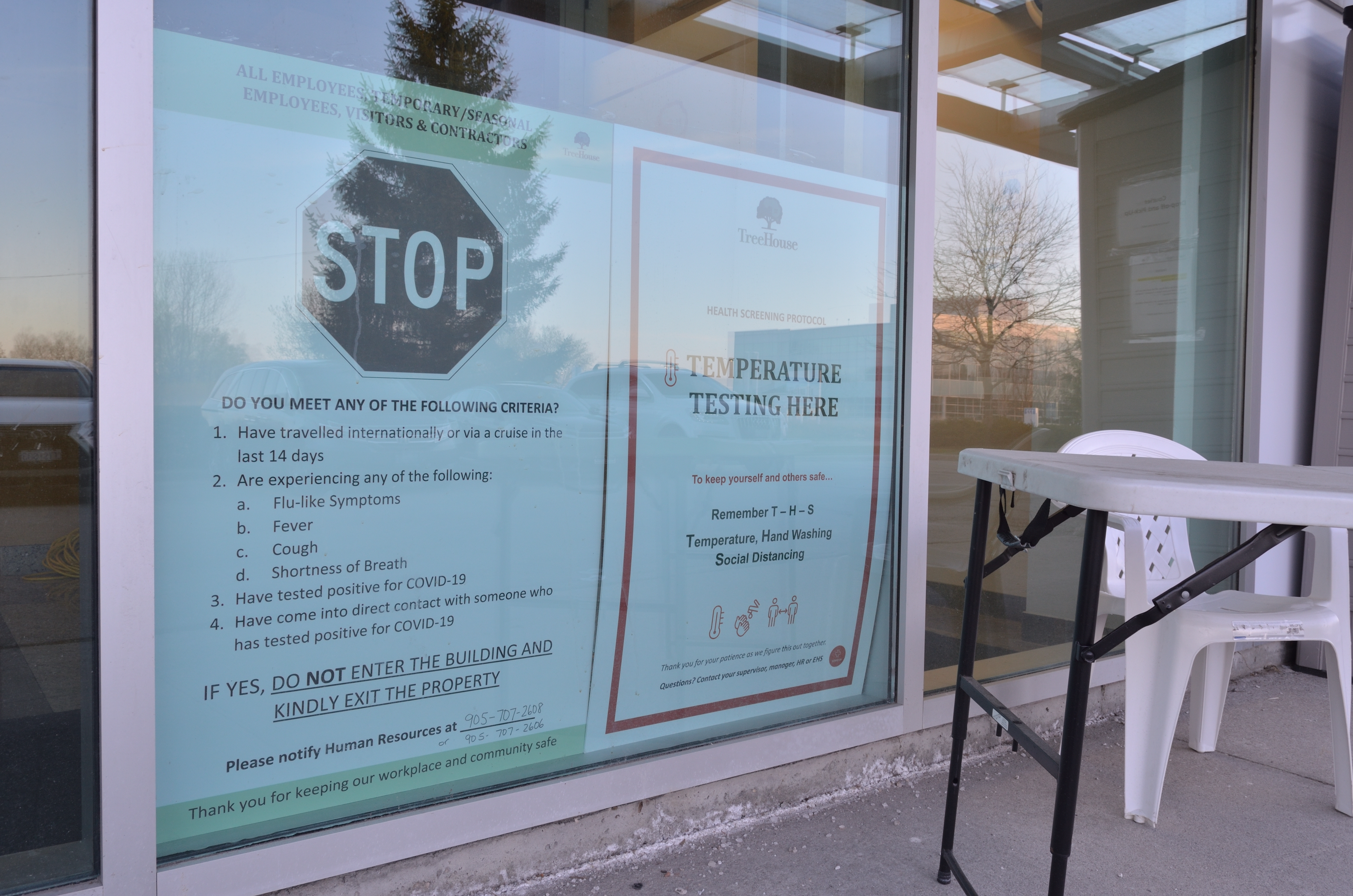 COVID19 office checkpoint in Richmond Hill, ON